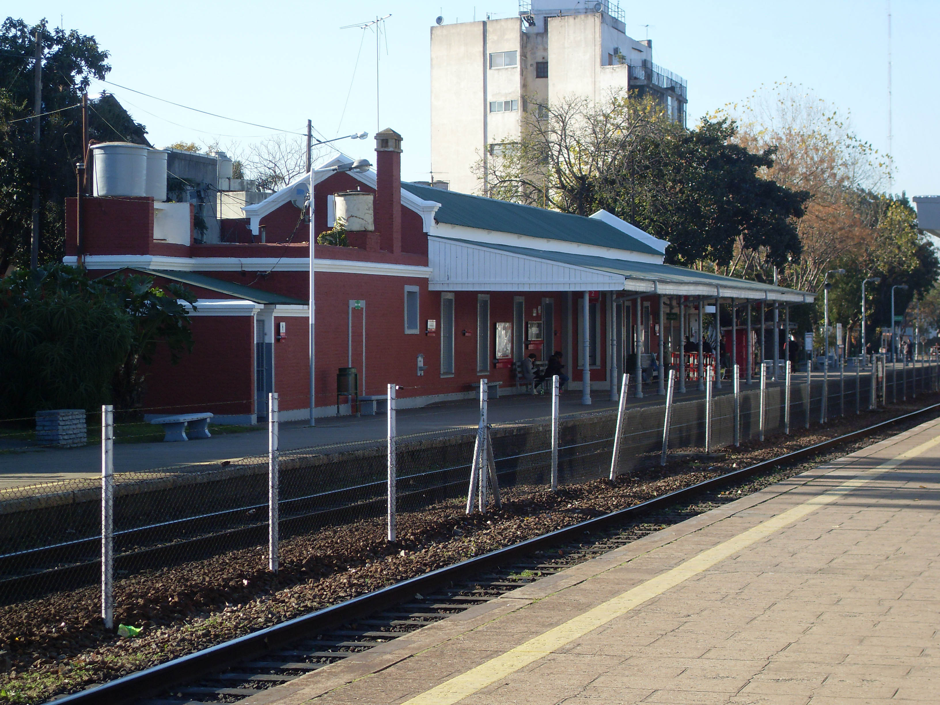 Florida train station building and platform of Belgrano Norte Line. Services to Retiro runs on that side of the station.